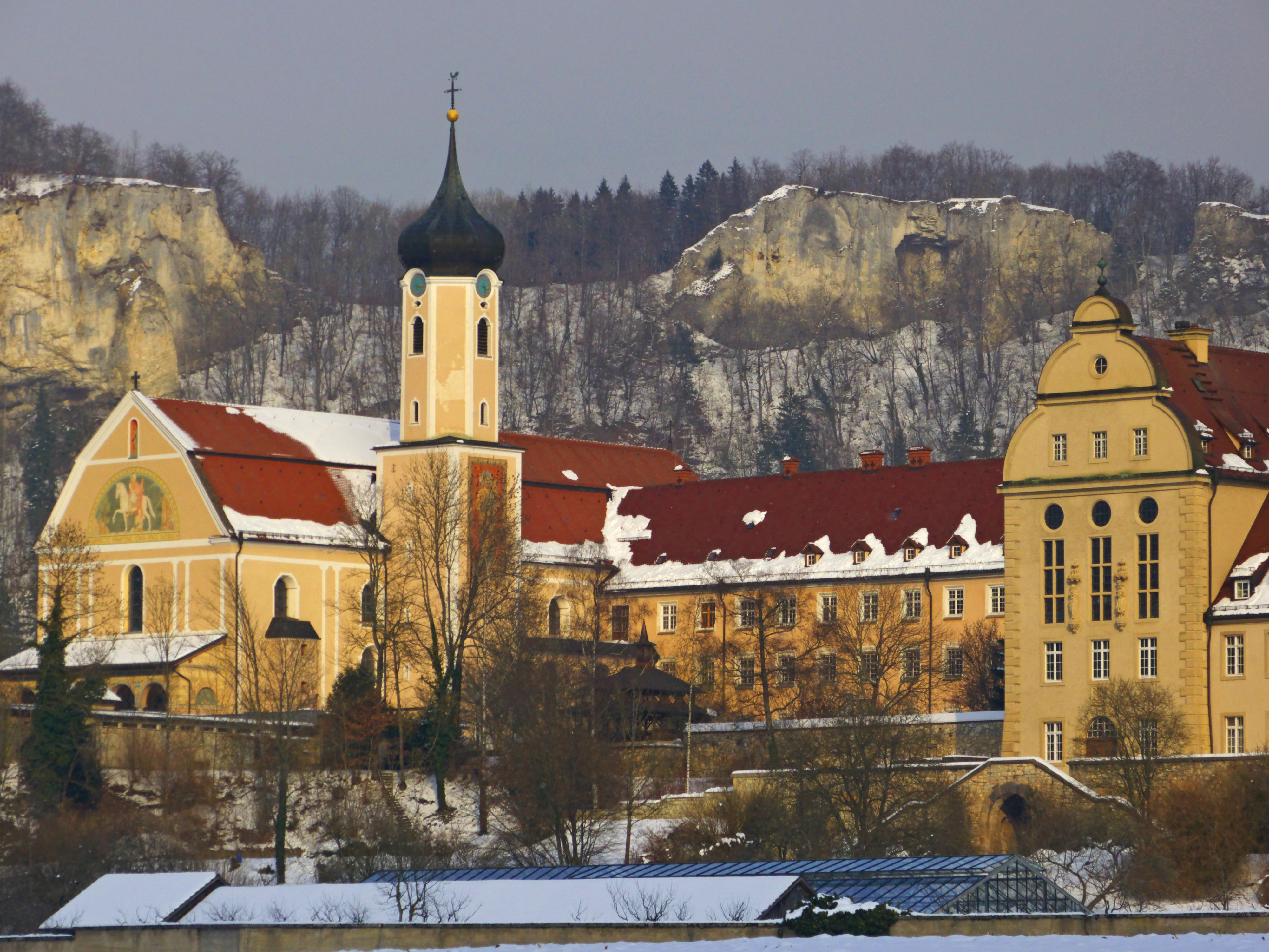 Monastery